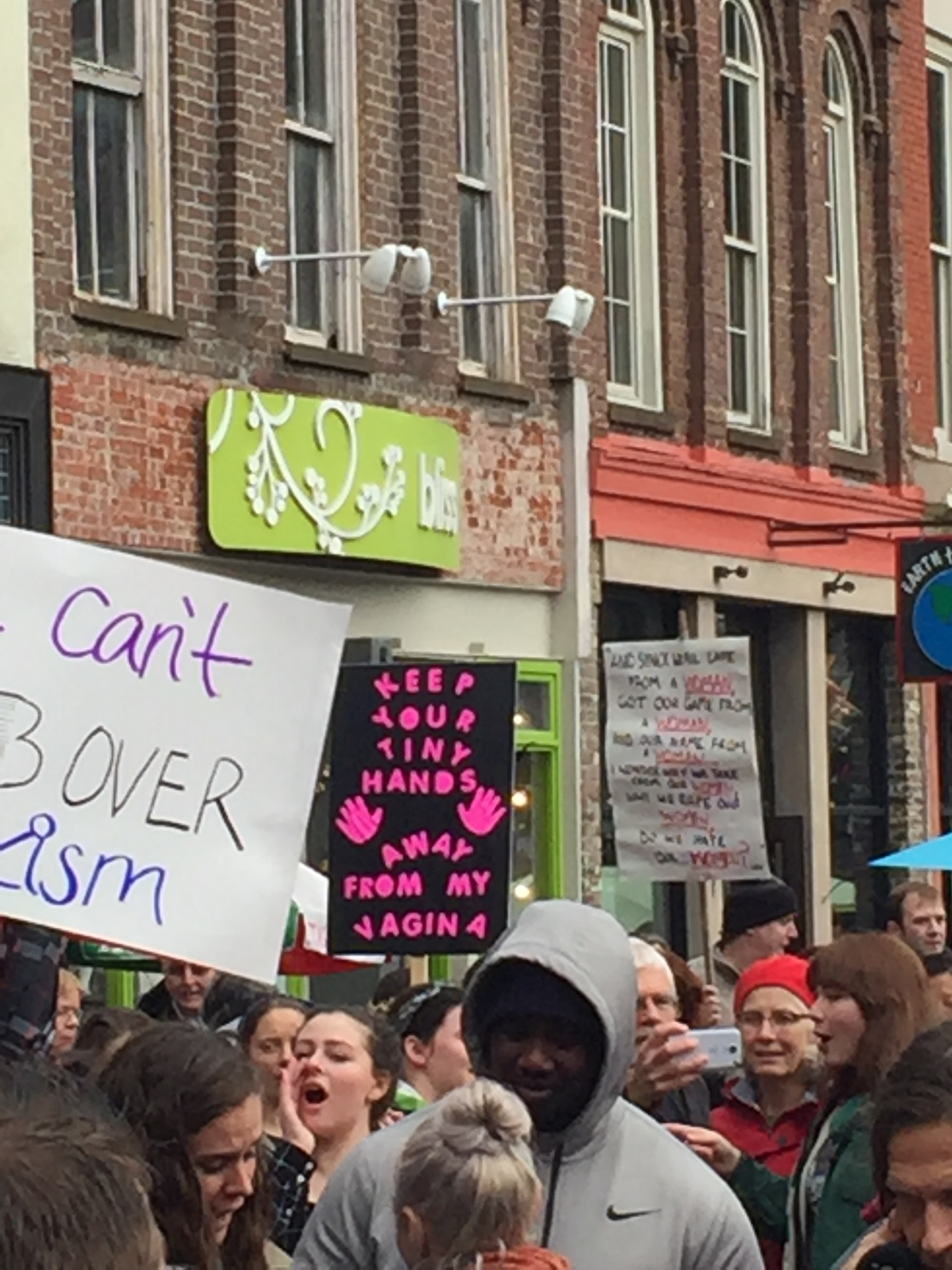 Knoxville Women's March